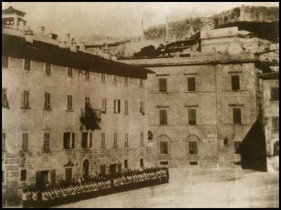 First photography taken in Elba island